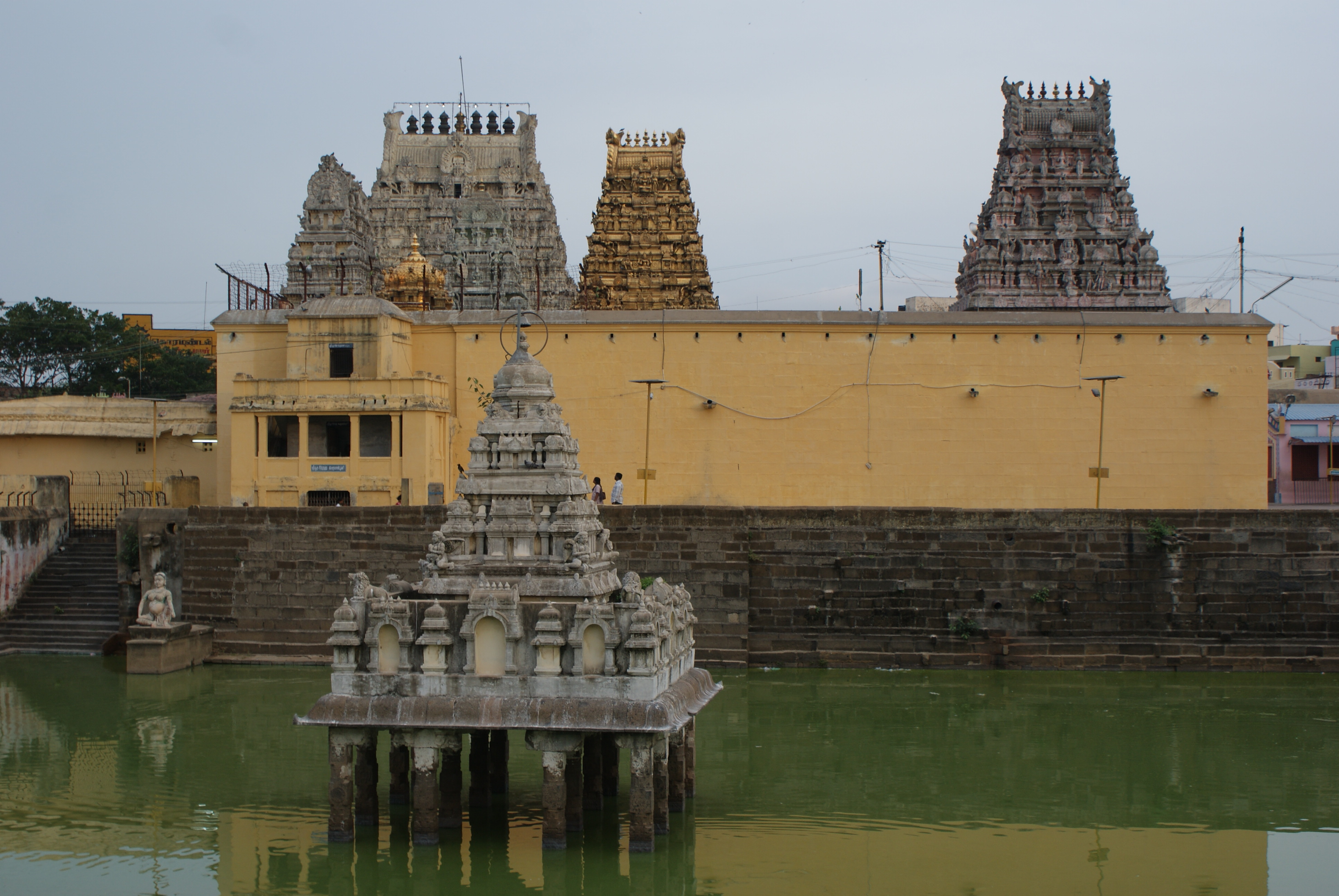 Kamakshi Amman Temple in Kanchipuram (Tamil Nadu, India).